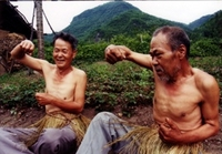 Manchuria Korean's Subak Dance (Korean Chinese's Subakchoom)